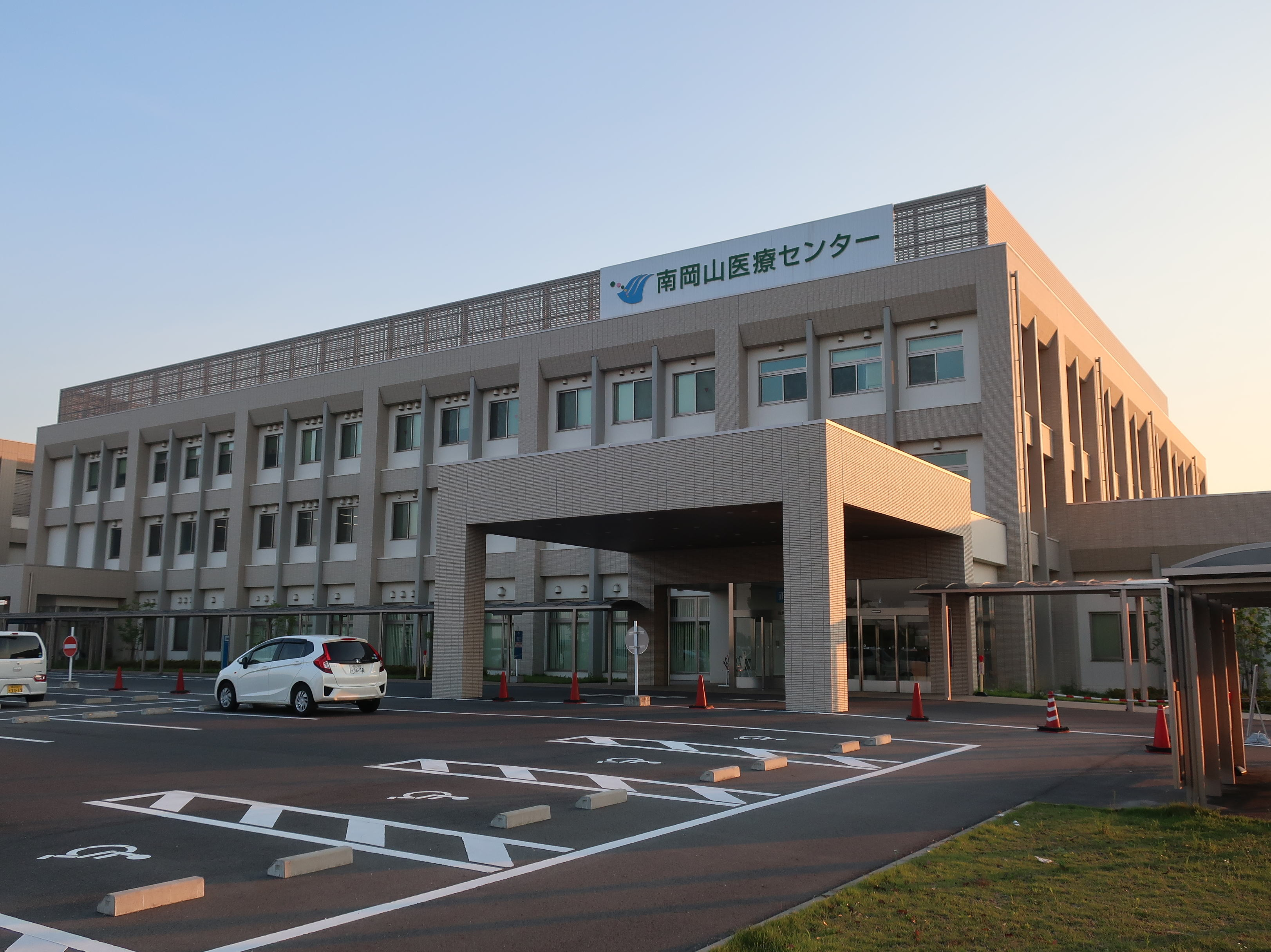 National Hospital Organization Minami-Okayama Medical Center